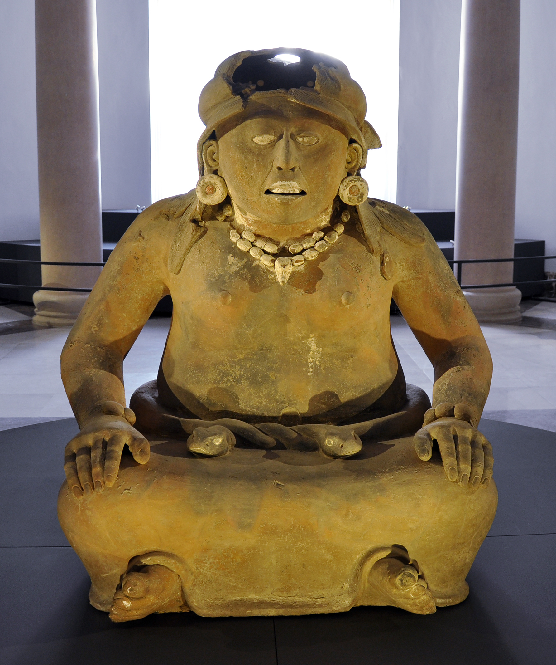 Cihuateotl, the Aztec goddess of women dead during childbirth. Large statue in terracotta, 600-900 AC, Mexico, state of Veracruz, El Zapotal style. MRAH, Jubilee Park, Brussels.